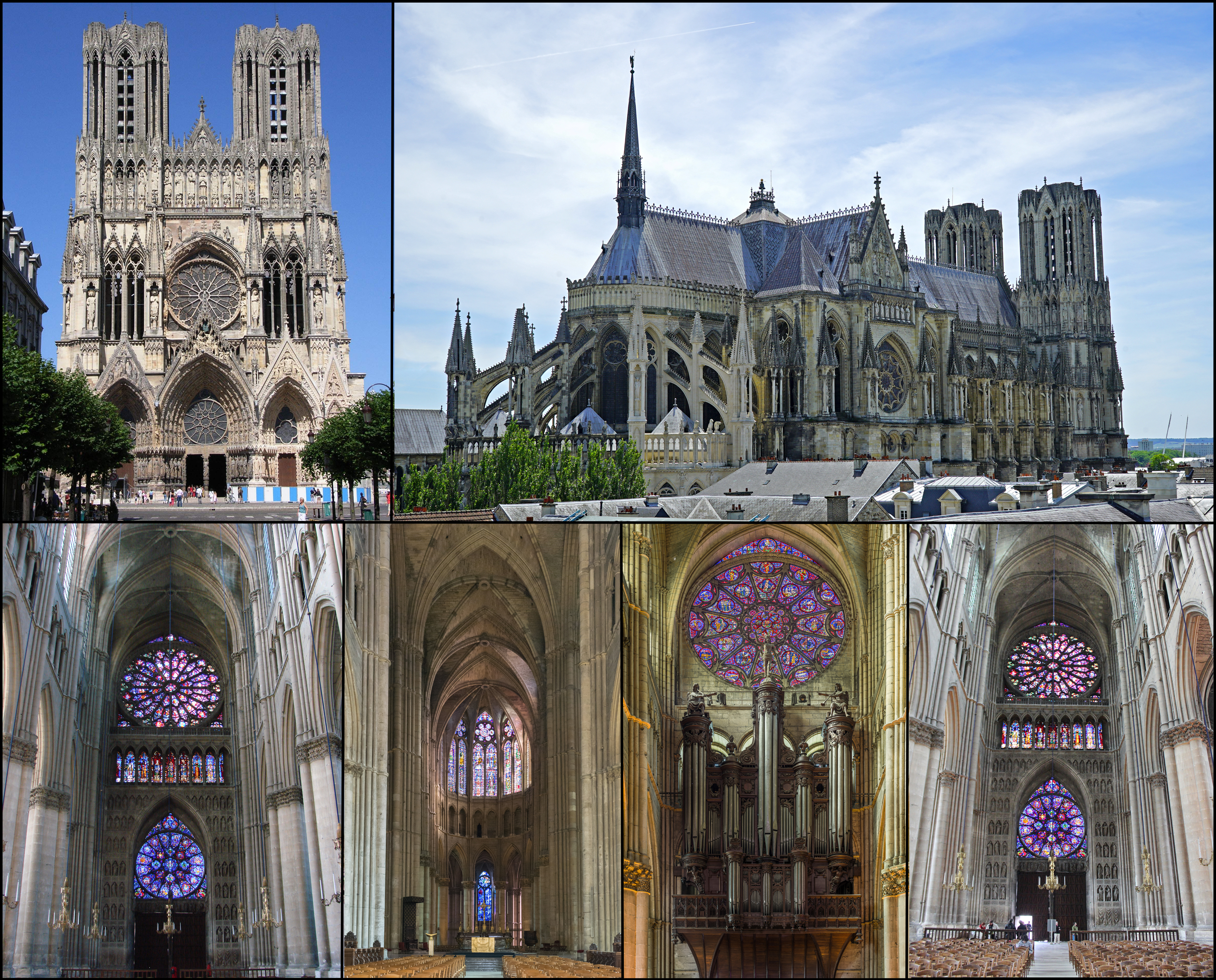 Reims Gothic Cathedral, Notre-Dame de Reims, 1211-1427